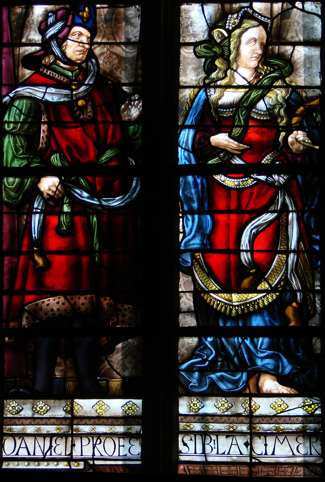 One of the 18 Renaissance stained glass windows of Auch cathedral by Arnaud de Moles.The prophet Daniel and the Sibyl Cimmeria.